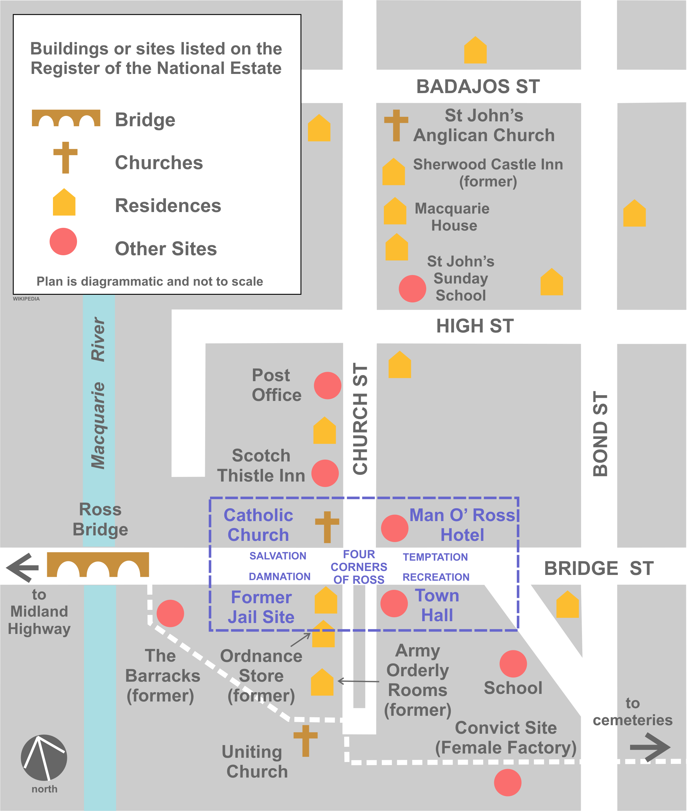 Heritage-listed buildings or sites in the town of Ross, Tasmania. Plan is diagrammatic and not to scale. Names shown are as listed on the register.